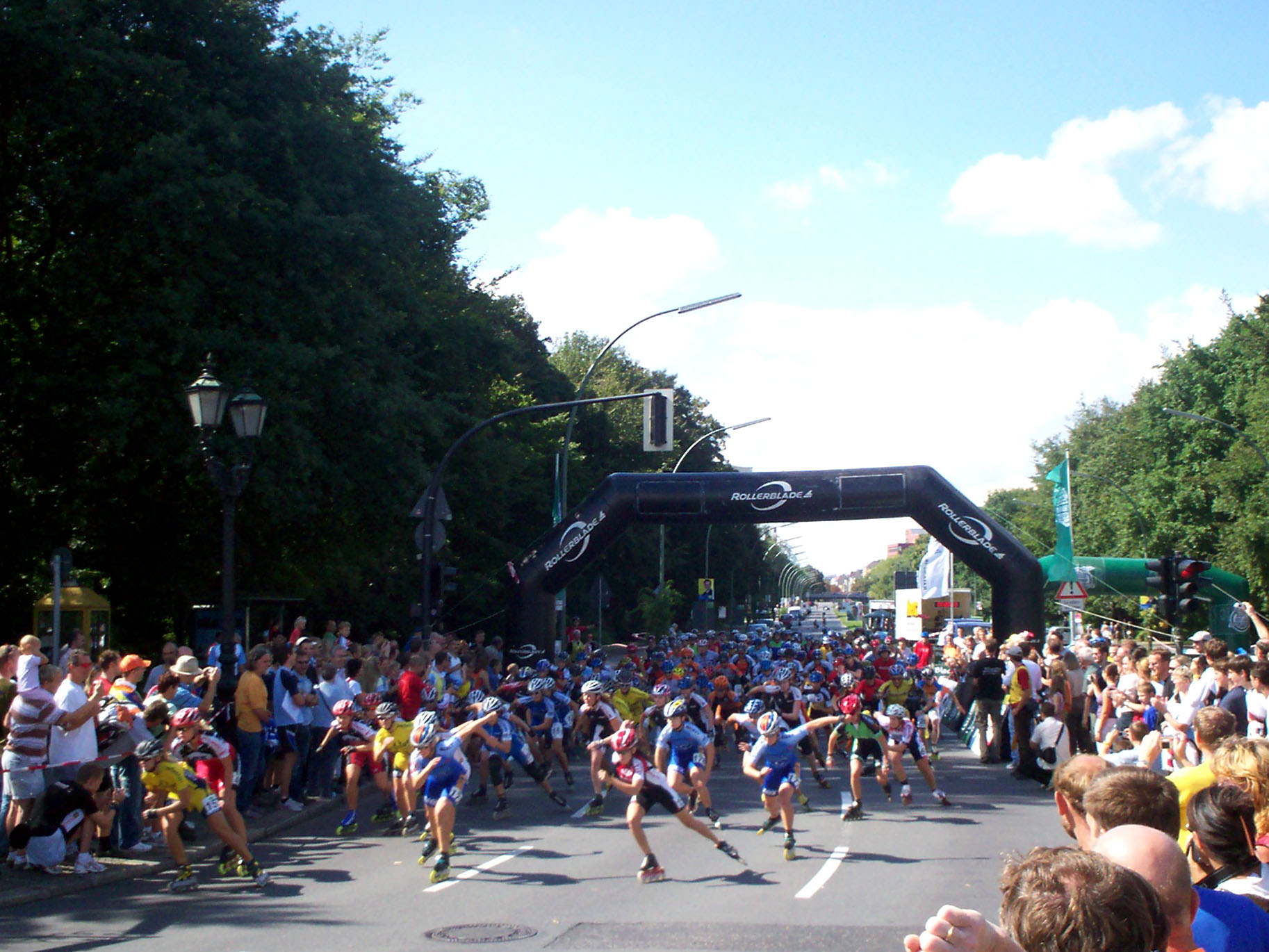 XRace 2006, women start - Inlinespeedskating half marathon Berlin, Germany